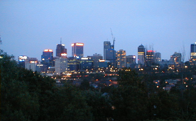 North Sydney, Australia: Skyline at dusk. North Sydney's high-rise commercial district from the North-East; it was taken from Ben Boyd Road in Neutral Bay, across the Warringah Freeway which can be seen through the trees.